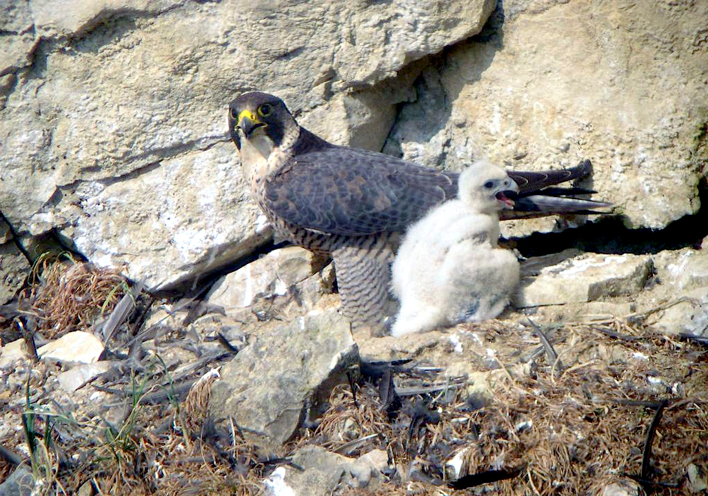 Adult with young near Montbelliard - France